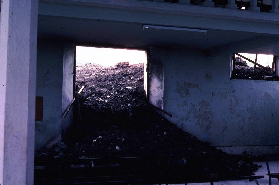 Inside of the Eglise Notre-Dame des Laves damaged by a lava flow at Sainte-Rose, La Réunion, France.